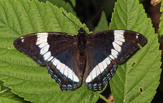 Limenitis arthemis